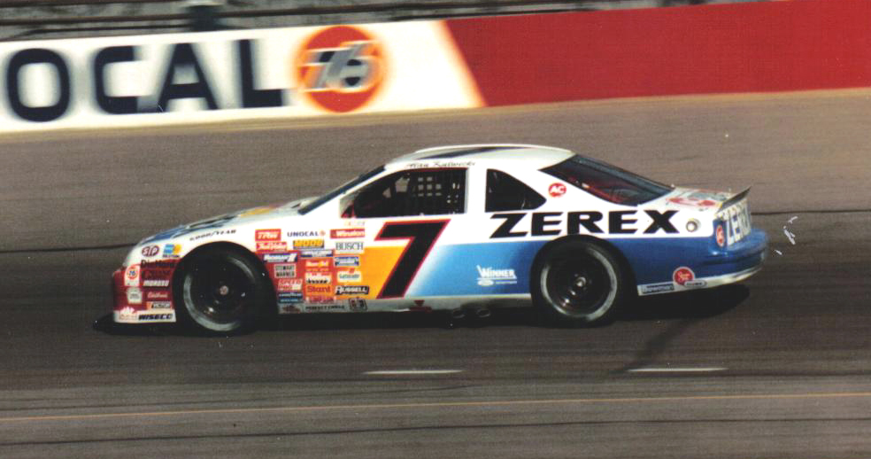 Alan Kulwicki in his self owned Zerex Ford #7 at Phoenix International Raceway for the Checker Autoworks 500 where he finished 11th.Alan Kulwicki #7